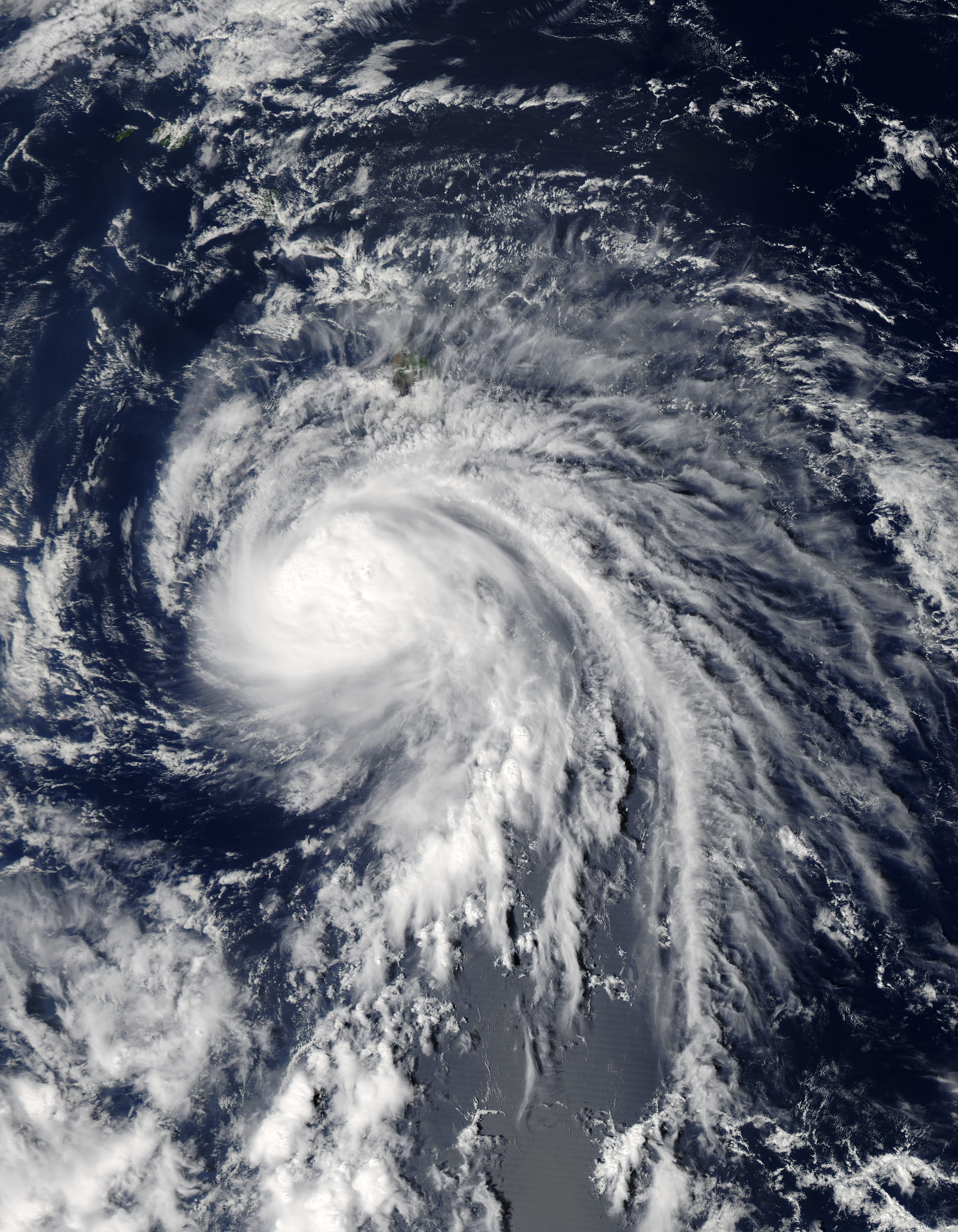 Hurricane Ana (02C) off Hawaii